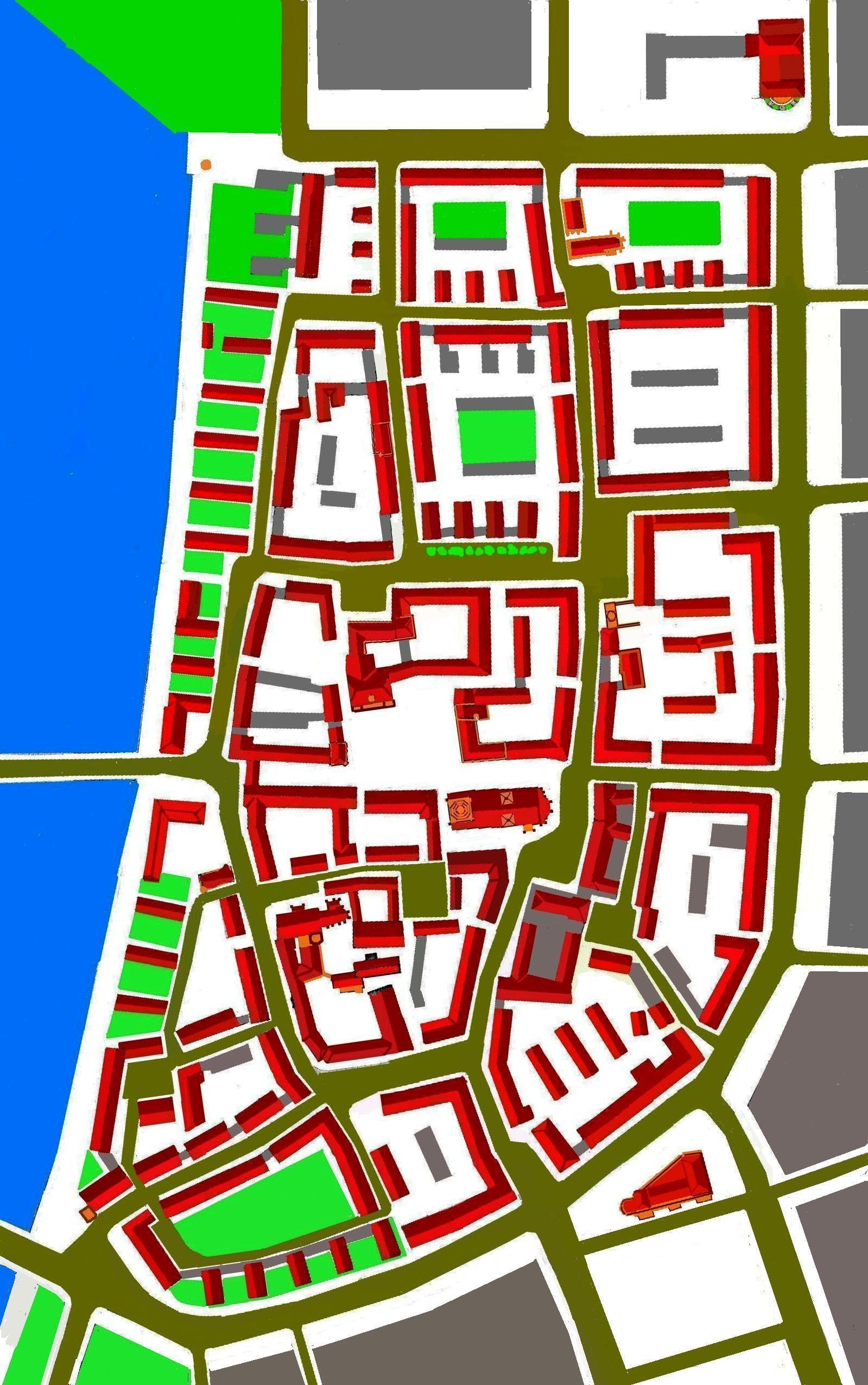 Heilbronn Bebauungsplan von Prof. Hans Volkart vom 9 November 1947.PNG